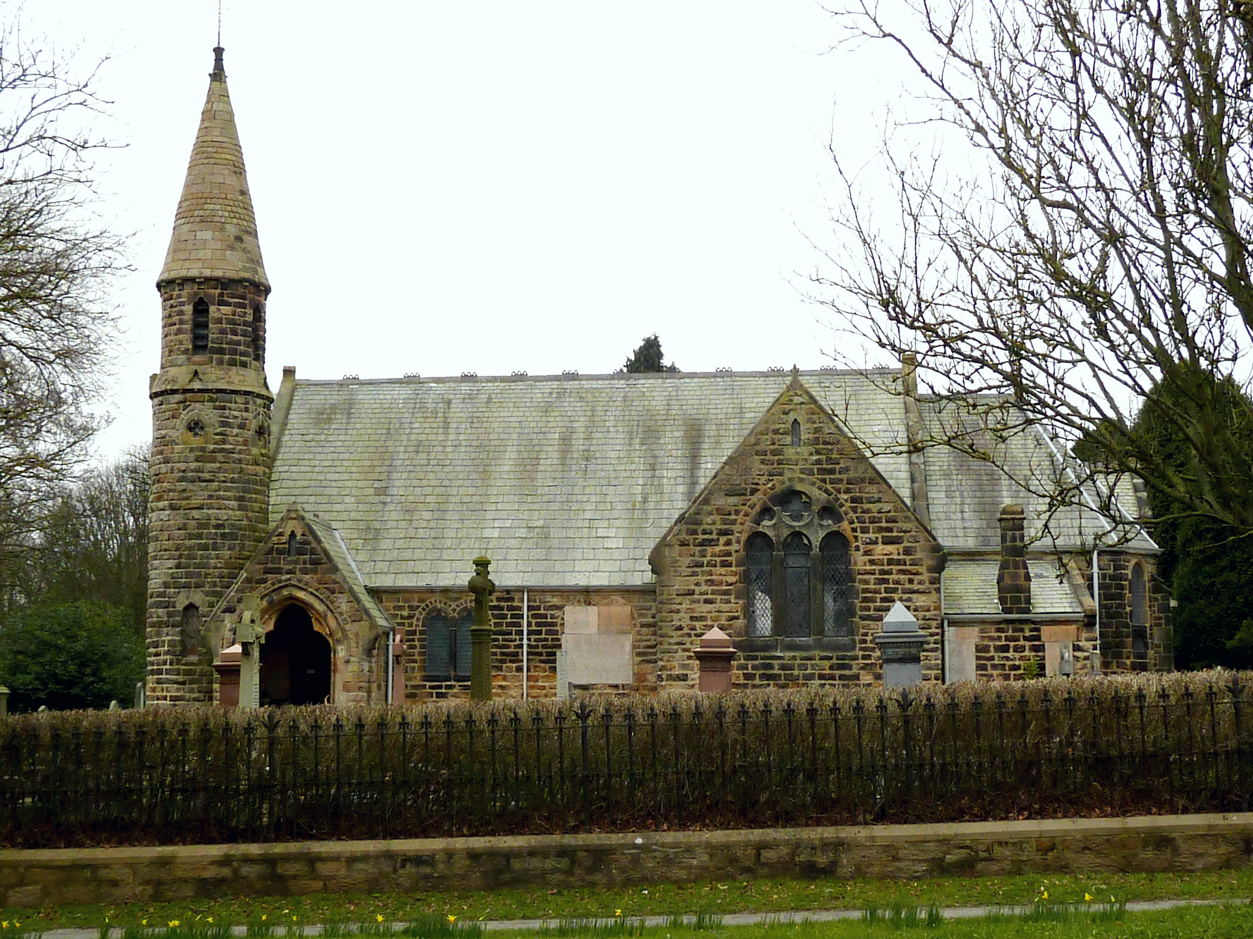 Church of All Saints, Otley Road, Harlow Hill, Harrogate, North Yorkshire, England. It is the cemetery chapel in Harlow Hill Cemetery, and was designed in 1870 by architects Isaac Thomas Shutt and Alfred Hill Thompson.